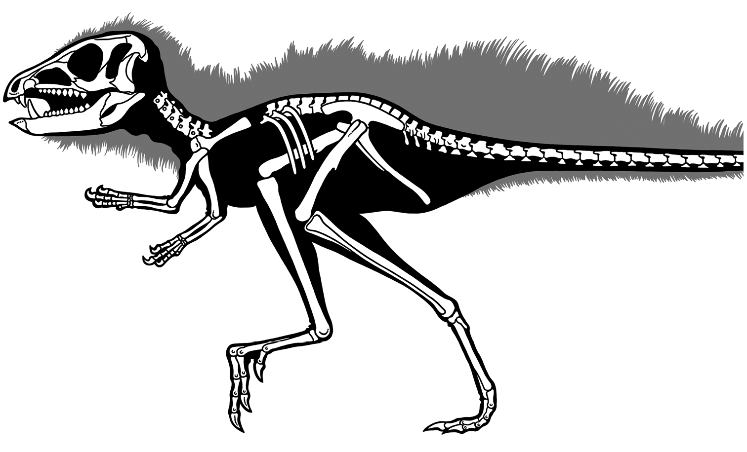 Skeleton of the heterodontosaurid Tianyulong confuciusi from the Lower Cretaceous Jehol Group of China. Silhouette skeletal reconstruction in lateral view showing preserved bones and integumental fibers (based on IVPP V17090). Distal most caudal vertebrae unknown.